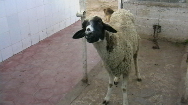 Lateral deviation of head and neck in a ewe with presumable encepahlitic listeriosis (Sidi Smaïl, Morocco). Walon: tiesse sol costé d' ene berbis avou del listeriôze (portrait saetchî pa L. Mahin).